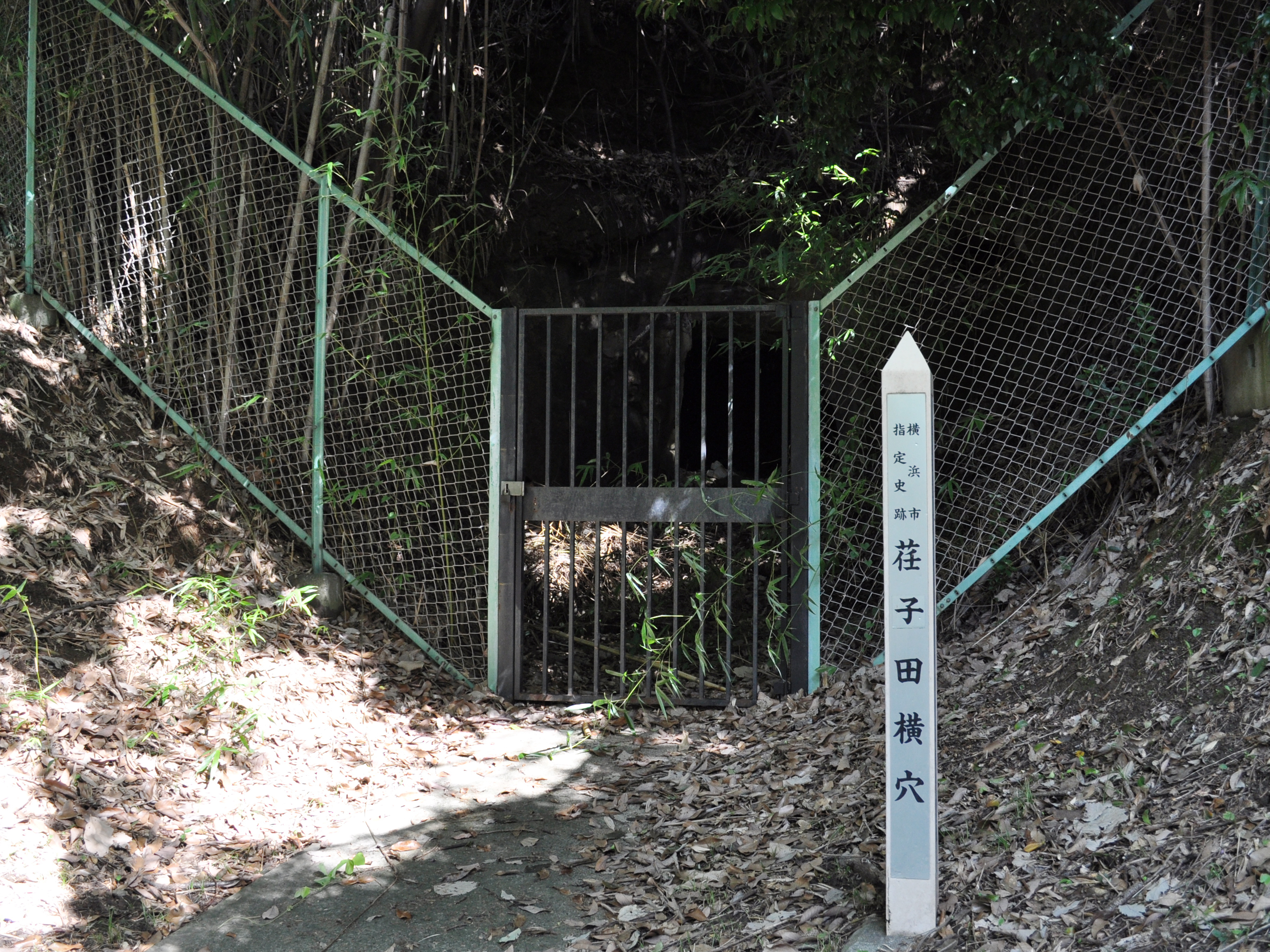 View of Ekoda Ouketsu Cave in Aoba-ku, Yokohama, Kanagawa, Japan. It is considered a tomb of local ruling families in the 7th century.